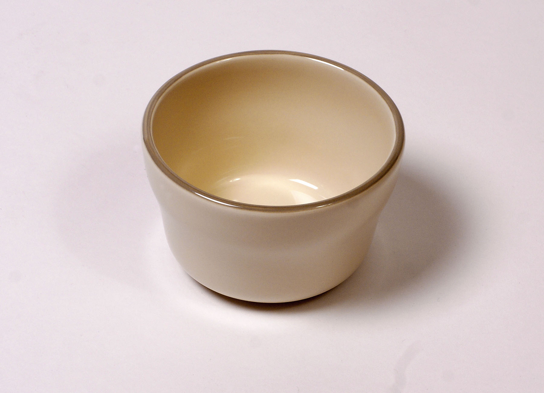 A brownish ramekin, with a plain exterior.